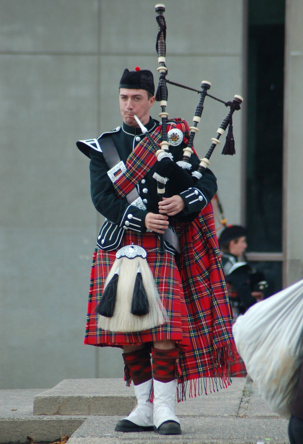 A bagpiper and member of the Queen's Bands (Queen's University, Kingston, Ontario) wearing a full plaid in traditional highland dress.